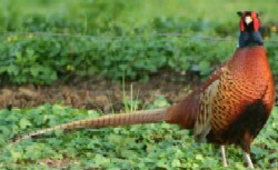 Phasianus colchicus